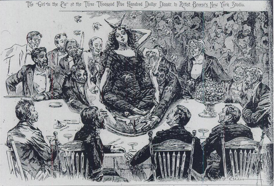 Newspaper illustration: "The Girl in the Pie" at the three thousand five hundred dollar dinner in Artist Breese's New York Studio" (event occurred May 20, 1895).